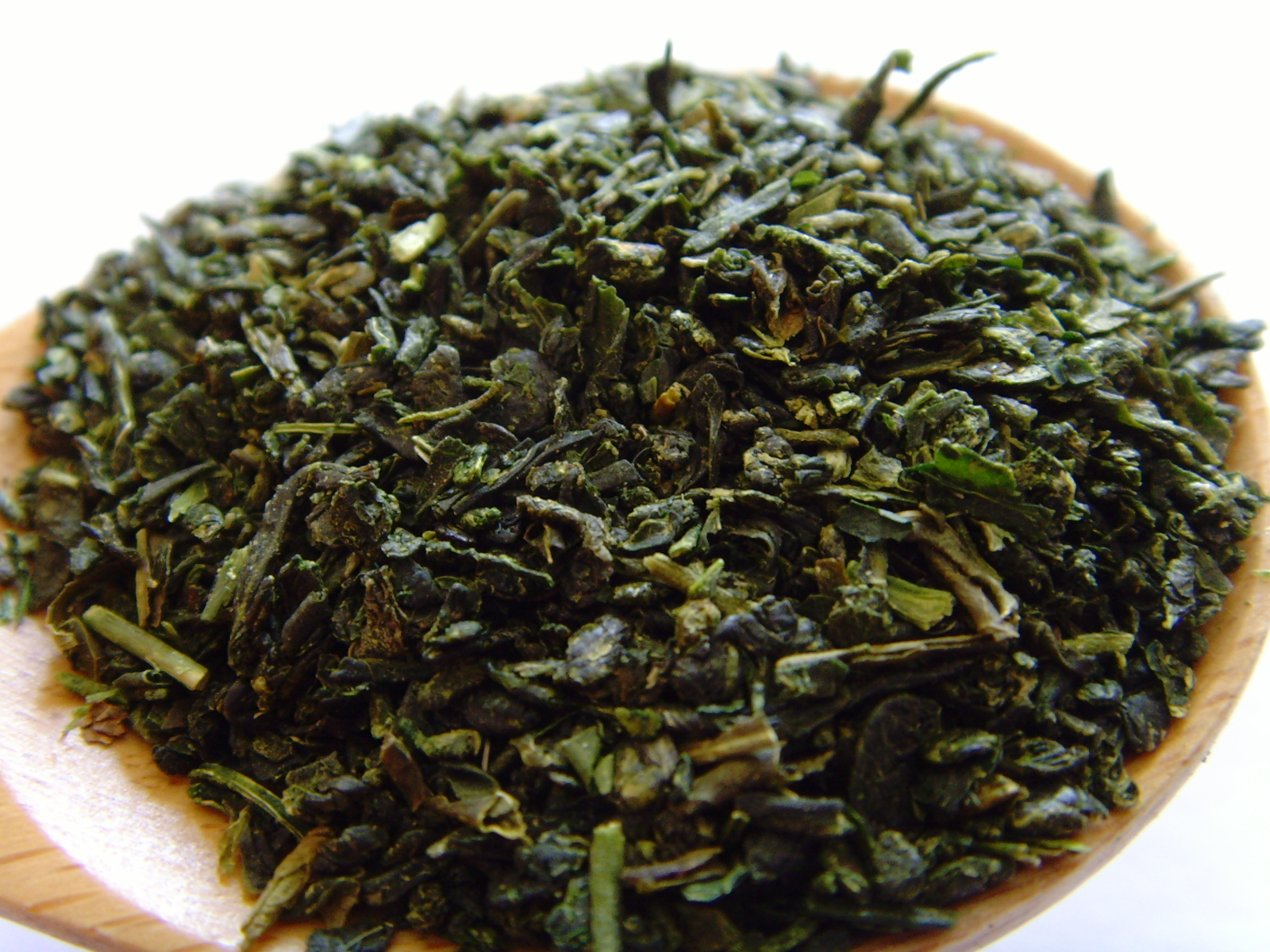 Mecha Tea close up